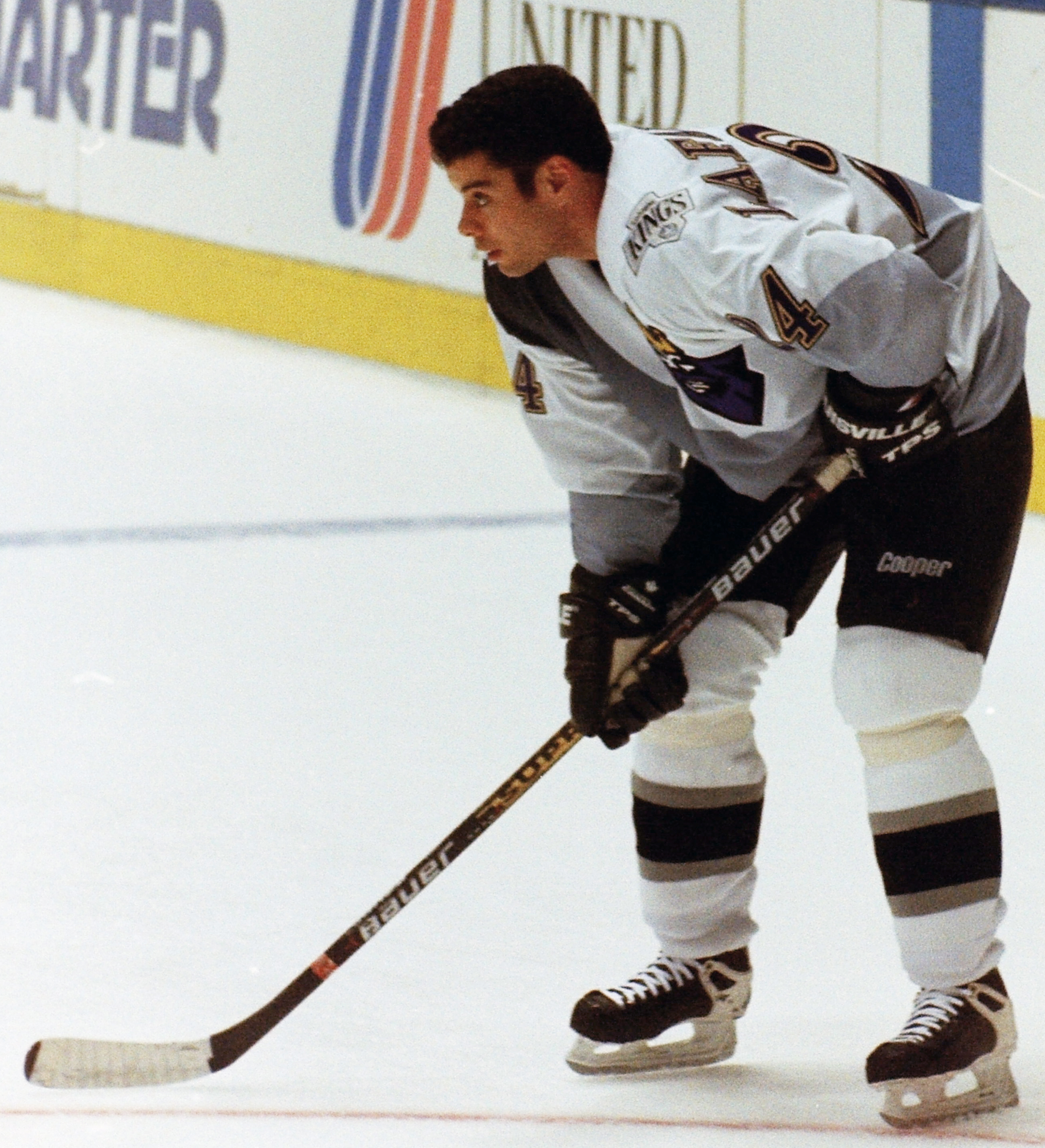 LaFayette as a member of the Kngs.